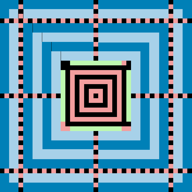 Actec Code zone description